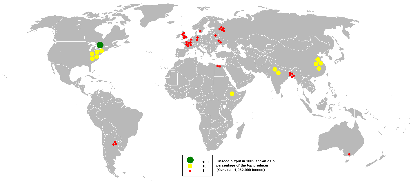 This bubble map shows the global distribution of linseed output in 2005 as a percentage of the top producer (Canada — 1,082,000 tonnes). This map is consistent with incomplete set of data too as long as the top producer is known. It resolves the accessibility issues faced by colour-coded maps that may not be properly rendered in old computer screens. Data was extracted on 9th June 2007 from Based on :Image:BlankMap-World.png